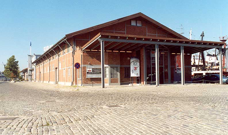 External view, image from the Cinema Museum, Thessaloniki, Central Macedonia, Greece